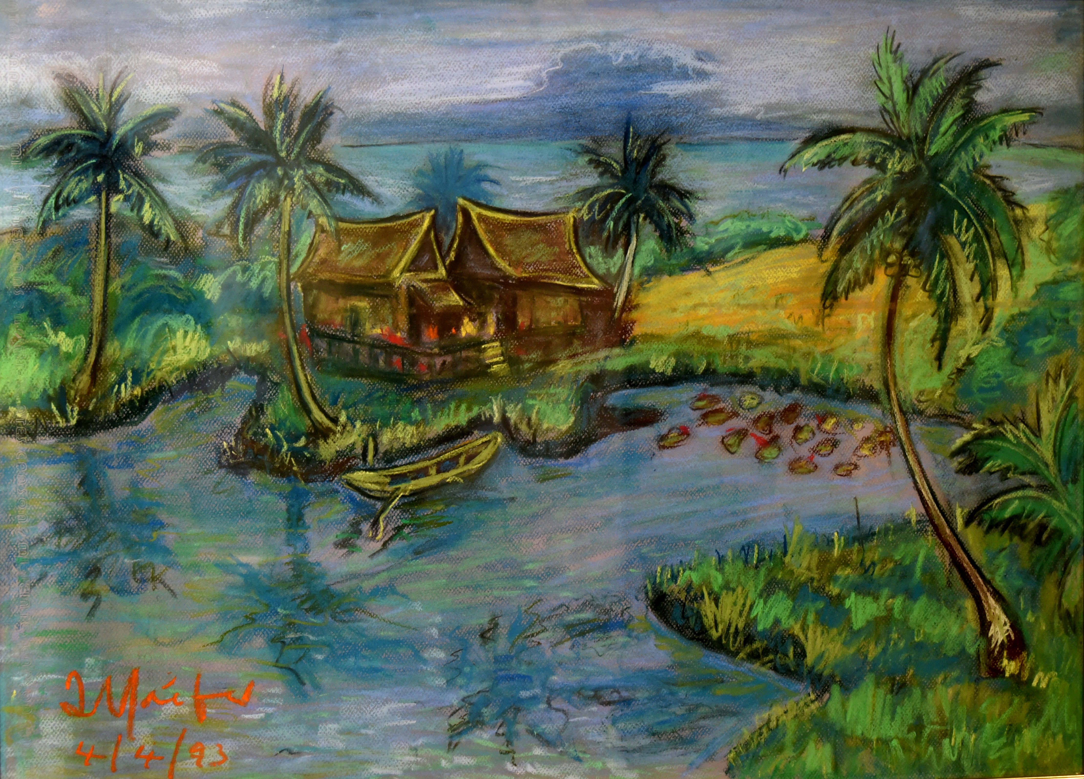 "A calm and tranquil village scenery". April 4, 1993. By Tuanku Ja'afar. Tuanku Ja'afar was a painter. The painting housed in the Tuanku Ja'afar Royal Gallery, Seremban, Negeri Sembilan, Malaysia.